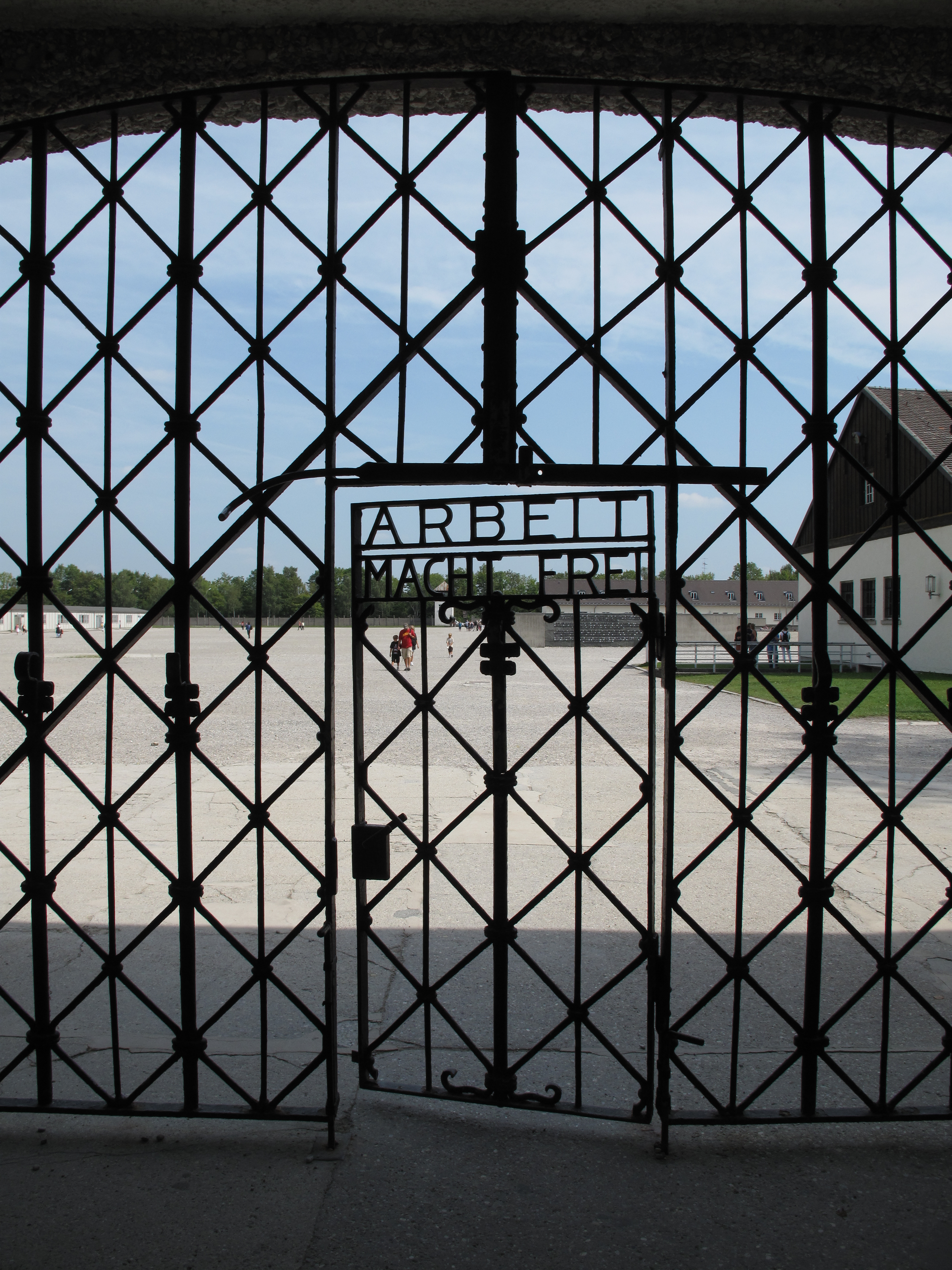 The gate to the concentration camp of Dachau, Bavaria/Germany.